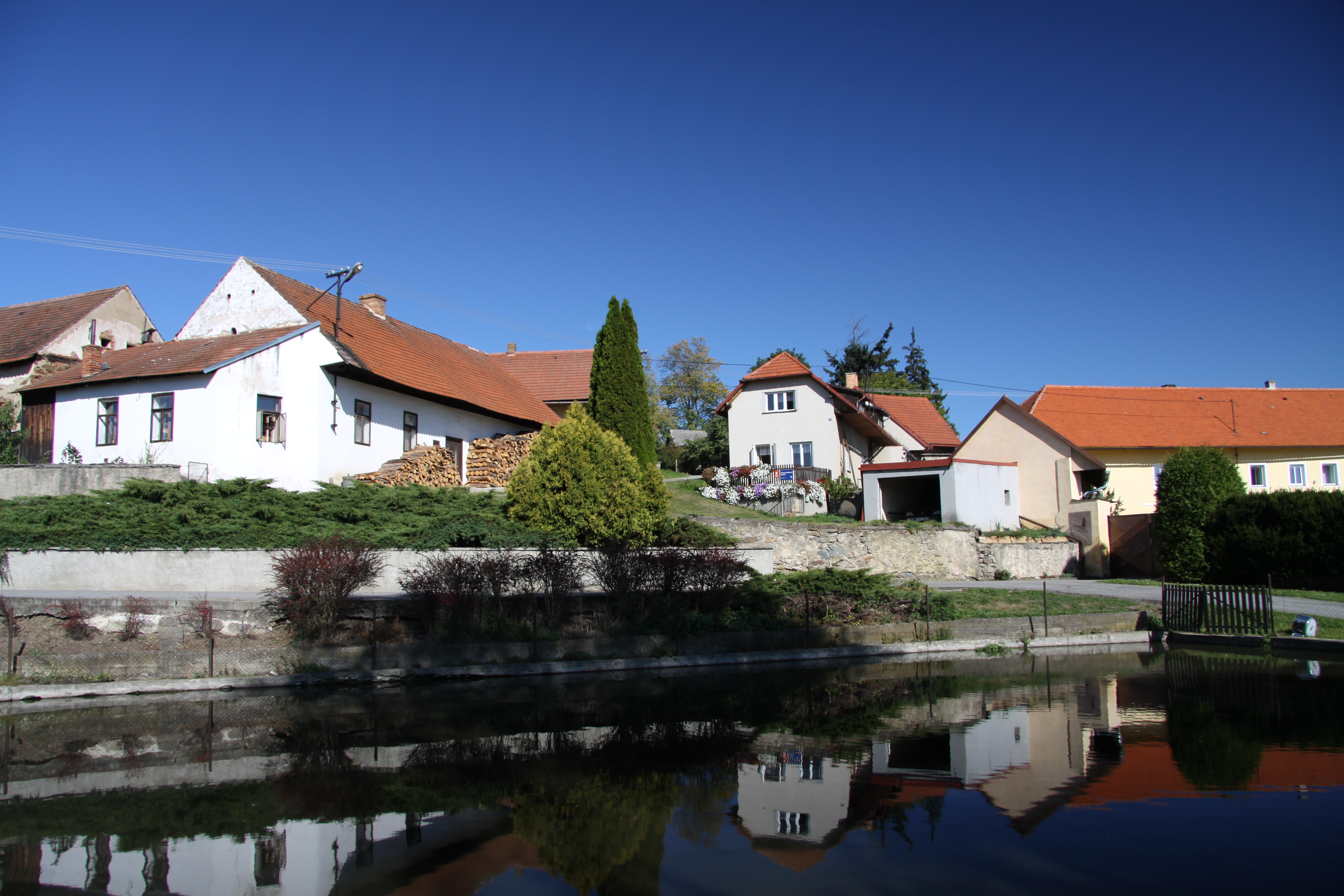 Dvory village in Prachatice District, Czech Republic - Google Maps - Google Earth